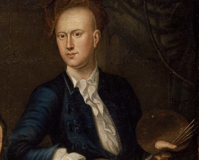 The Greenwood-Lee Family including a self-portrait of the artist